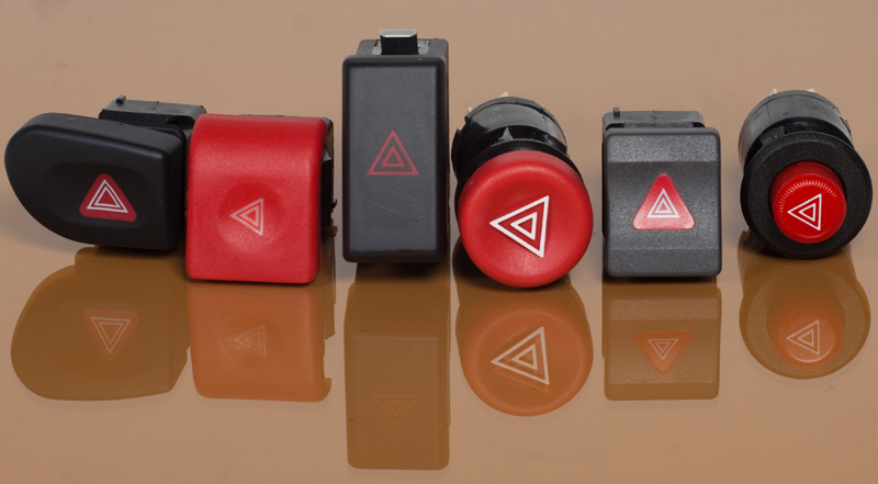 Buttons